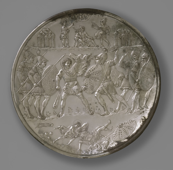 David and Goliath; one of the David Plates. Unknown silversmith 613-630 AD